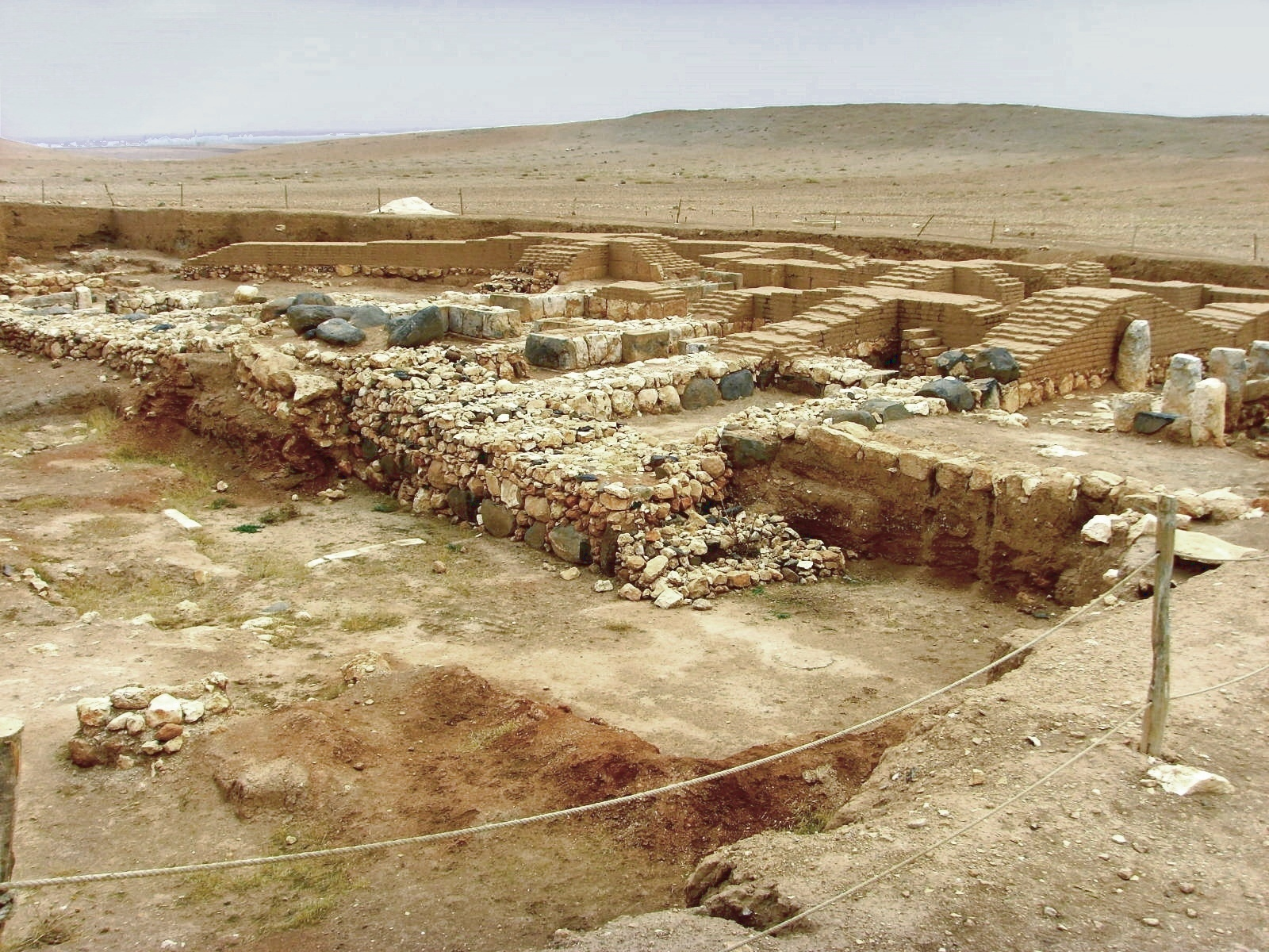 Ebla/Syria